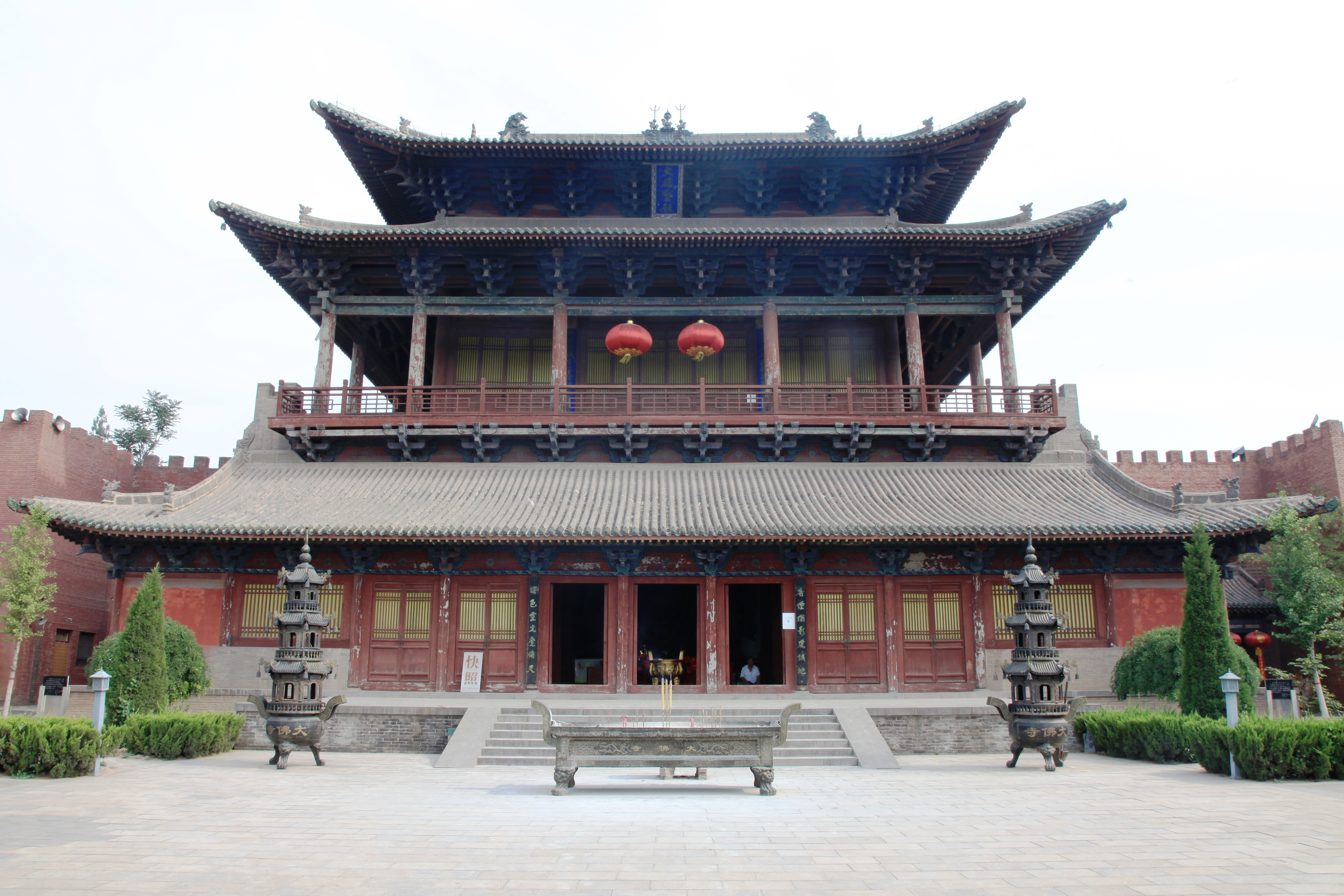 Front of the mainhall, Dafo temple in Jishan, Shanxi.